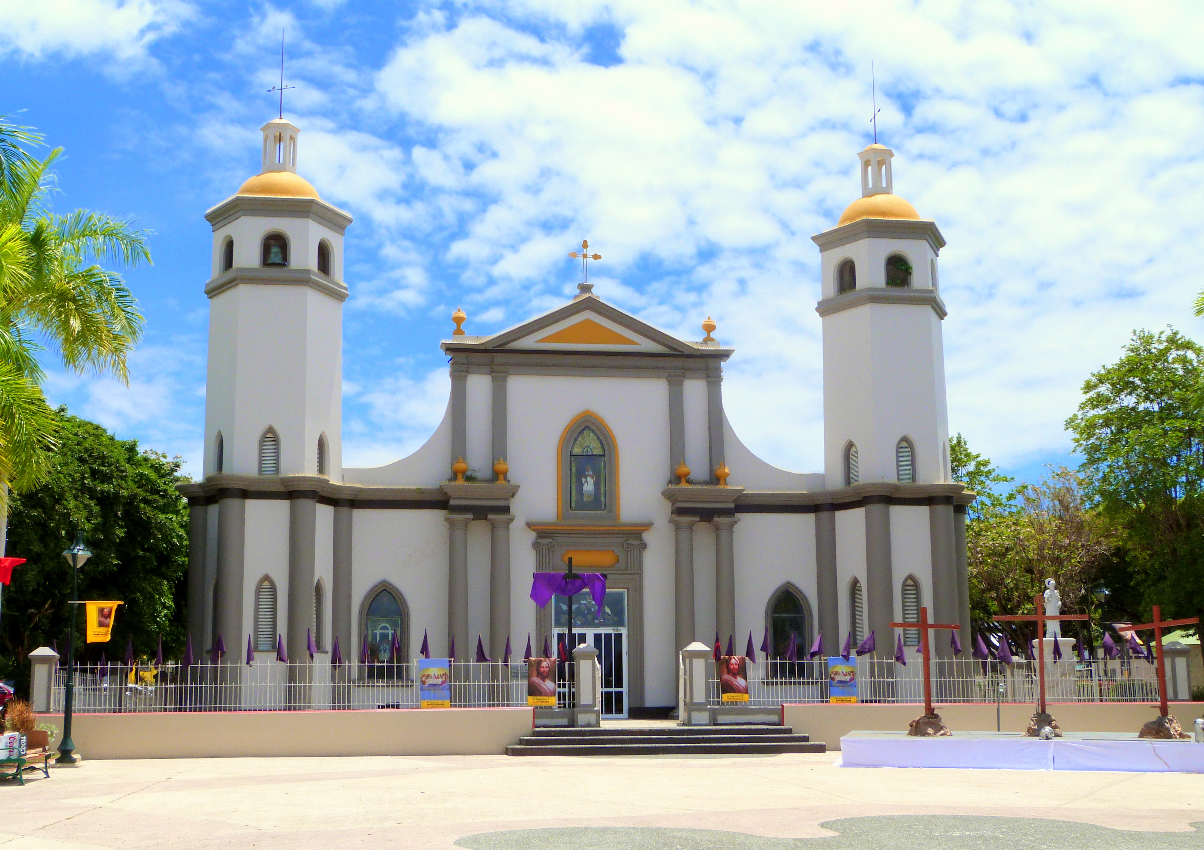 The historic Iglesia de San Juan Bautista y San Ramón Nonato (construction begun 1807), located on the town plaza in Juana Díaz, Puerto Rico, is listed on the U.S. National Register of Historic Places. In this photo, the church and square bear decorations in preparation for Good Friday.